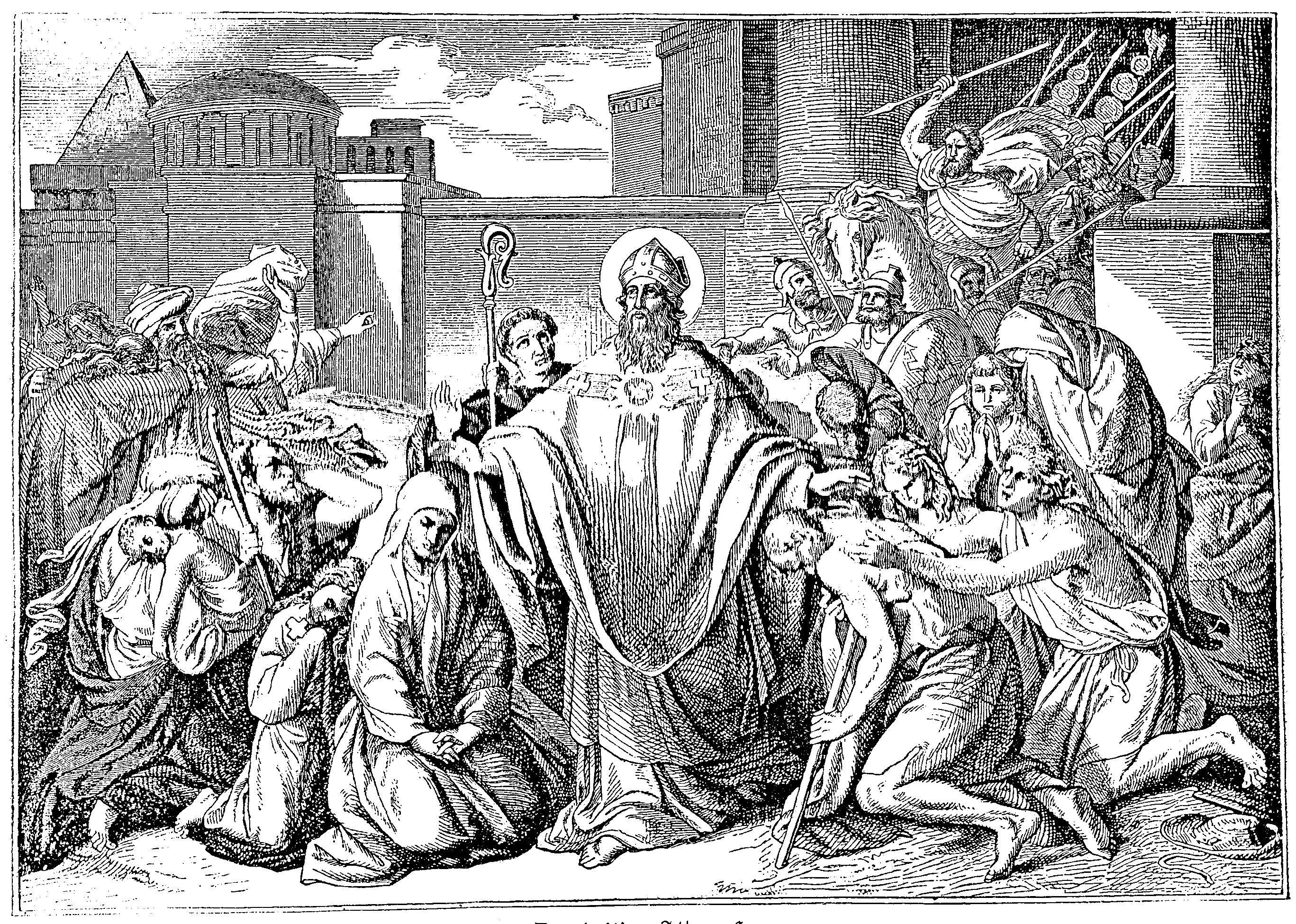 Saint Athanasius was persecuted